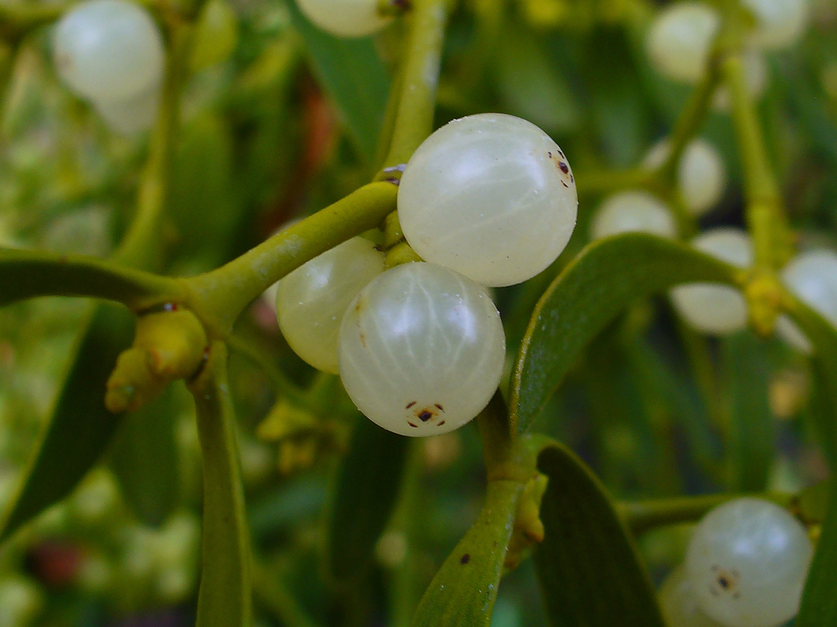 Viscum album, Santalaceae, European Mistletoe, fruits. Botanical Garden KIT, Karlsruhe, Germany.